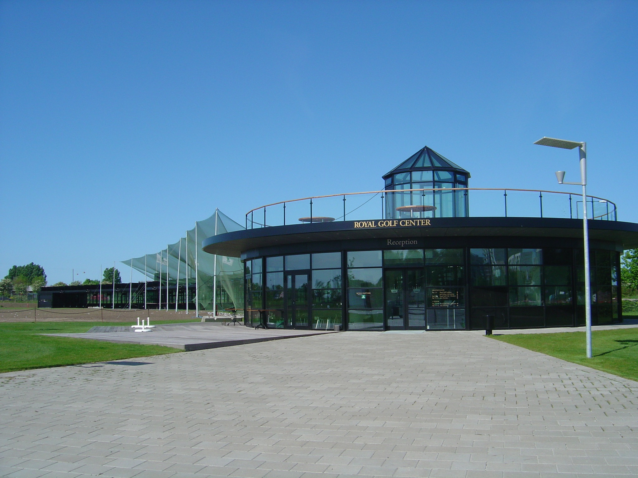 Royal Golf Center on Amager, Copenhagen. Photograph taken in the northeast corner at the main entrance, next to Center Boulevard.